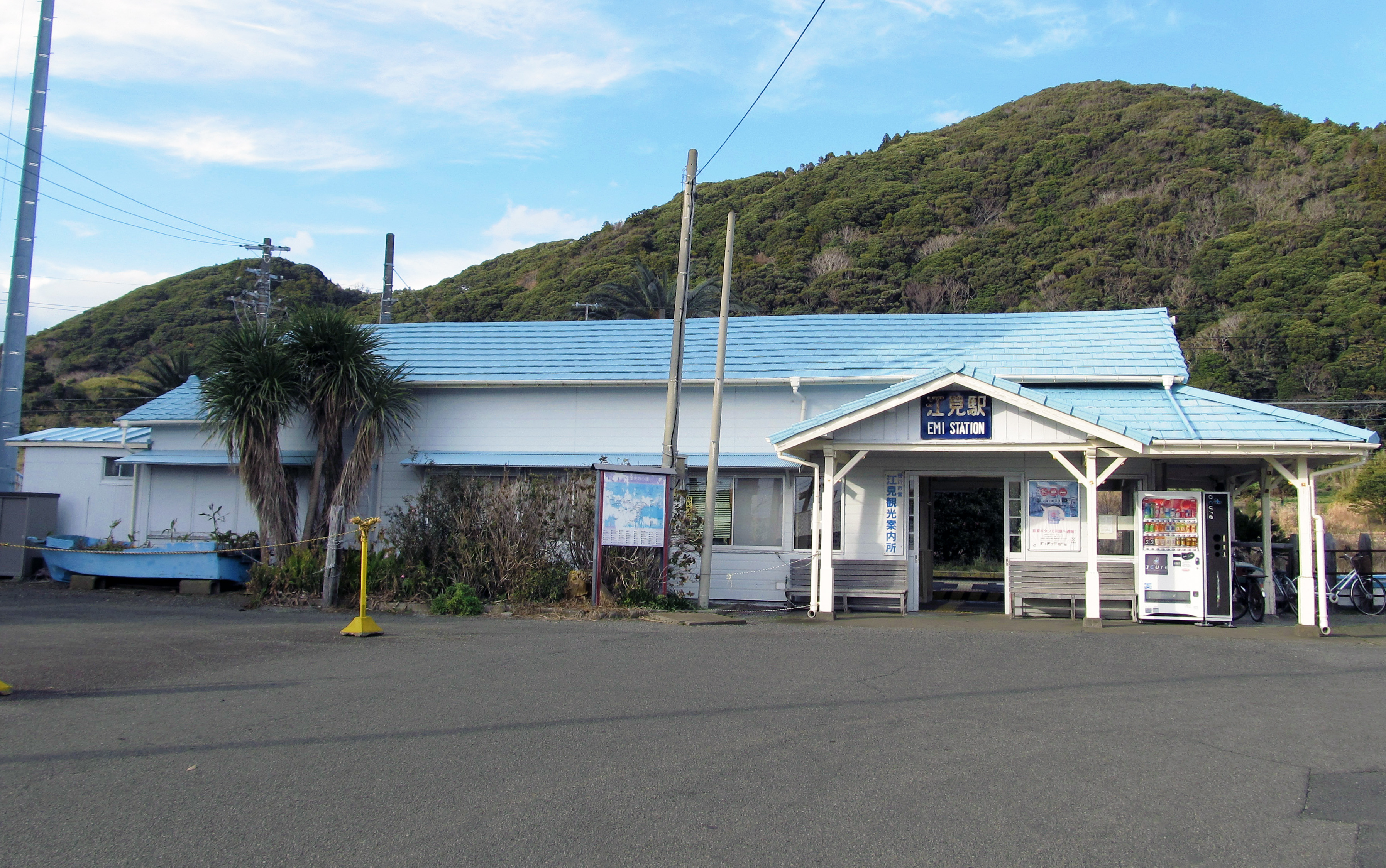 The building of Emi Station on the Uchibō Line in Kamogawa city, Chiba prefecture, Japan